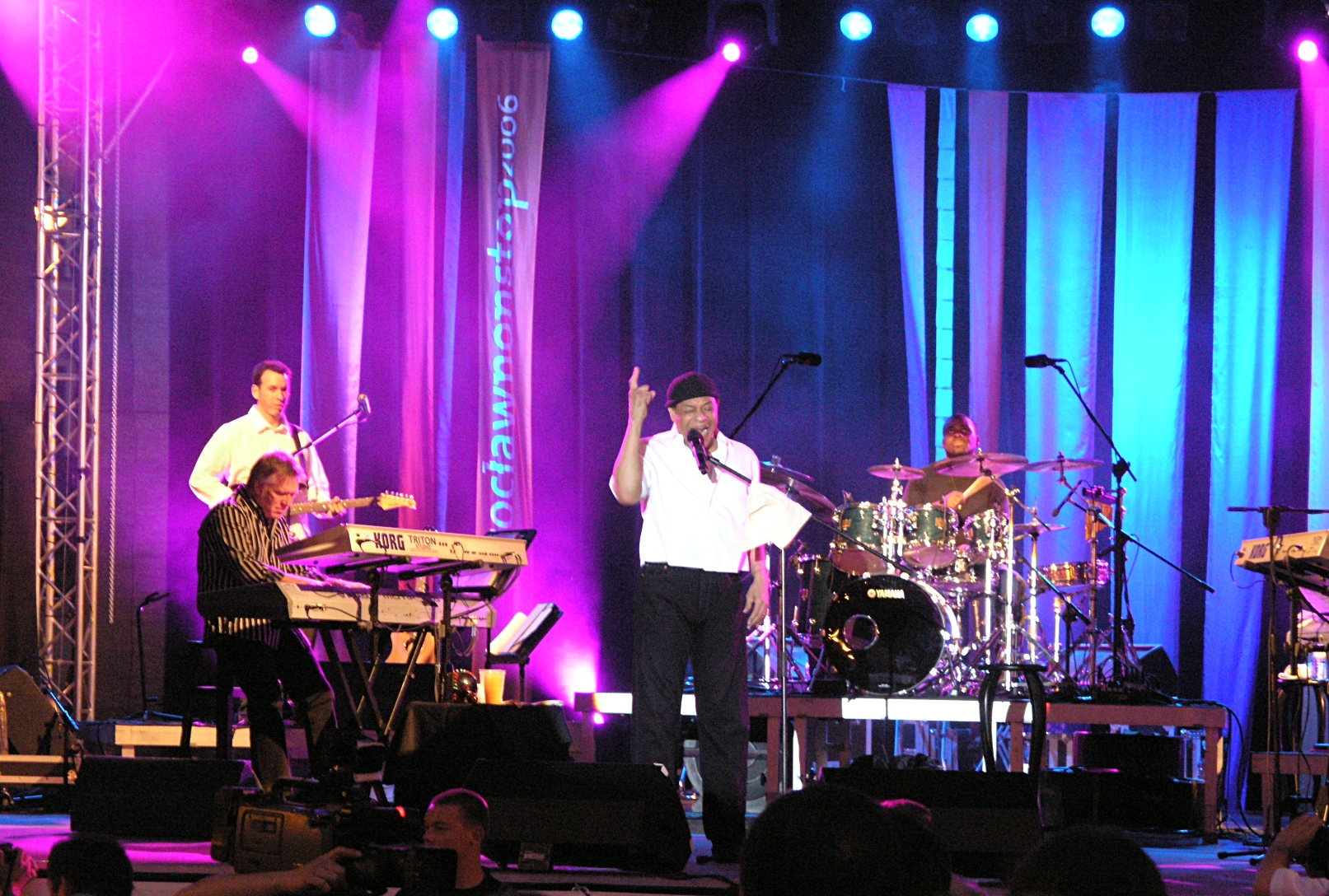 Al Jarreau and the band, Poland, Wrocław, June 25, 2006